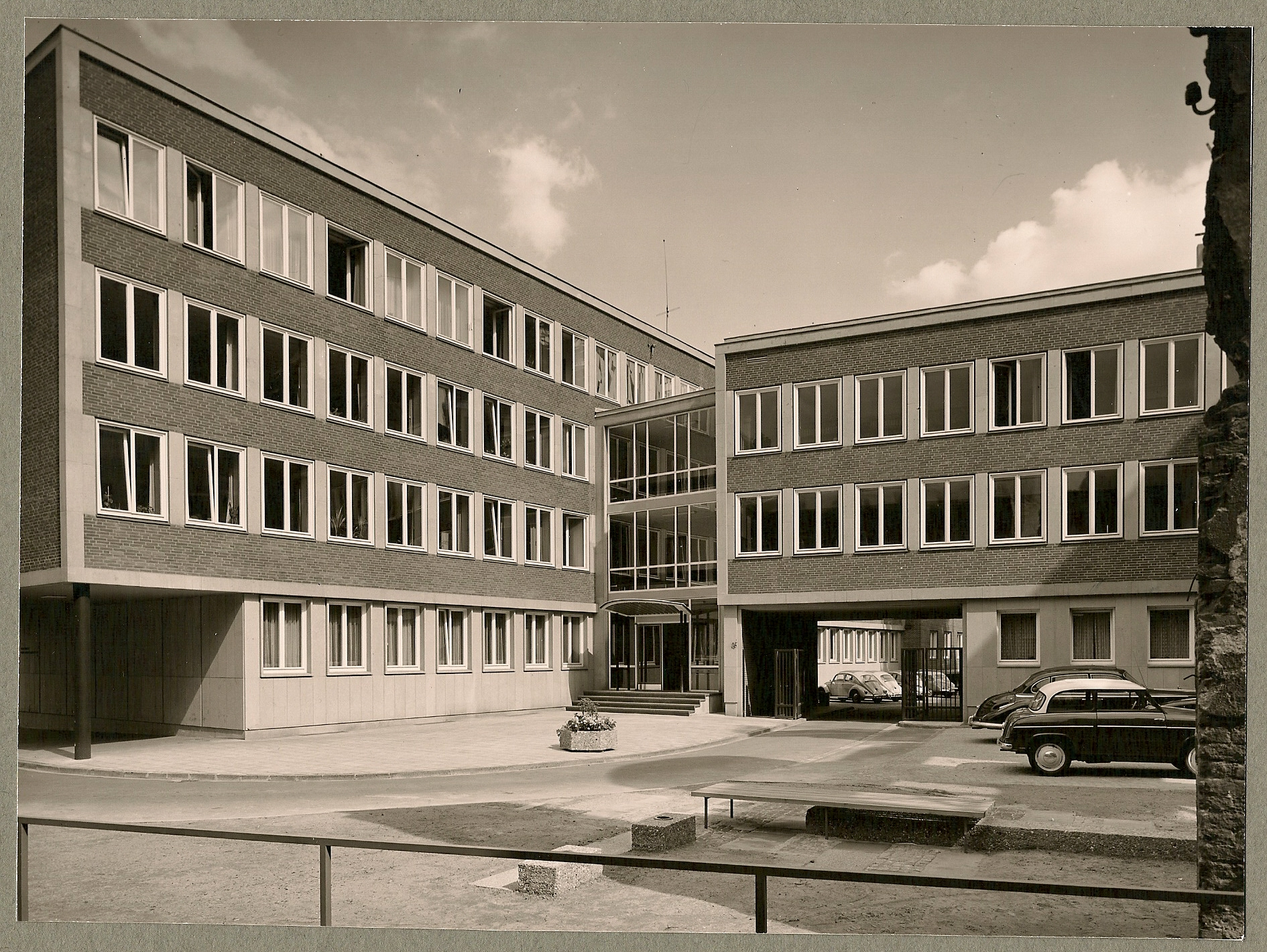 Staatshochbau in der kriegszerstörten Altstadt von Münster (Westfalen)